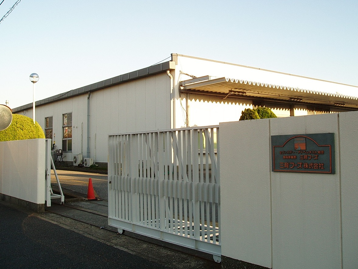 The factory of Saniku Foods, an affiliated food company of Seventh-day Adventist Church, located in Sodegaura, Chiba, Japan.